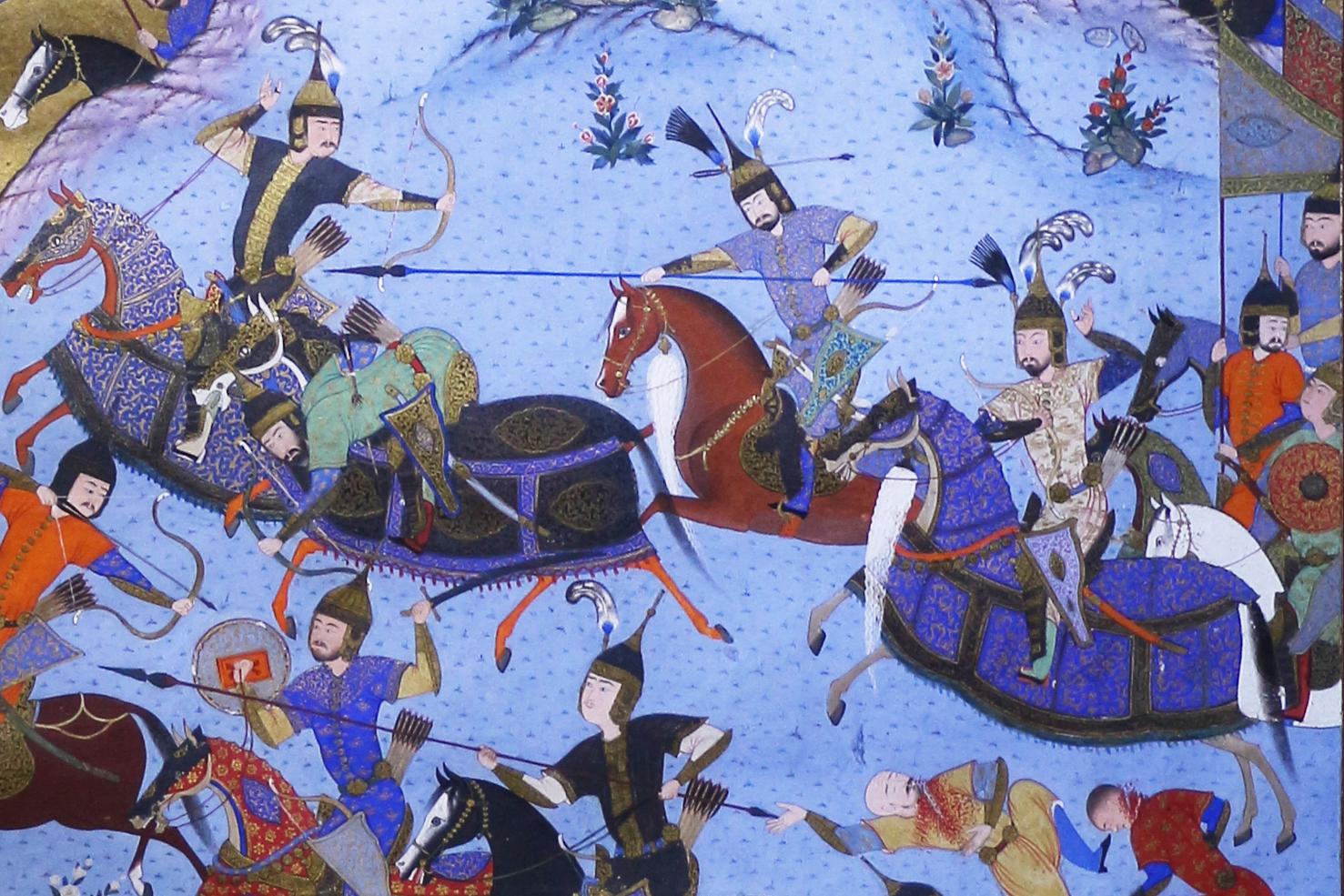 Detail of a miniature showing the Battle of Bahram Chobin with Saveh shah, Tabriz school, 16th century AD, Reza Abbasi Museum, Tehran, Iran